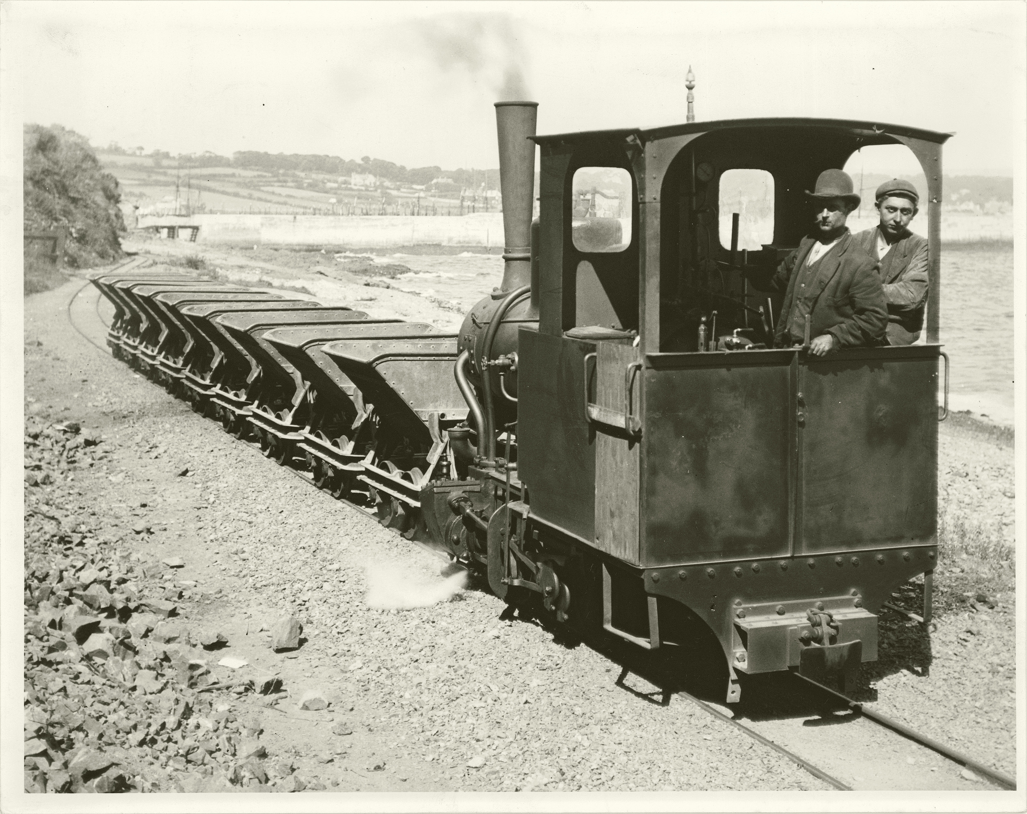 Penlee Quarry railway. This photo appears in the Railway Magazine of June 1939 (page 460). This says that the photograph was taken in 1906.